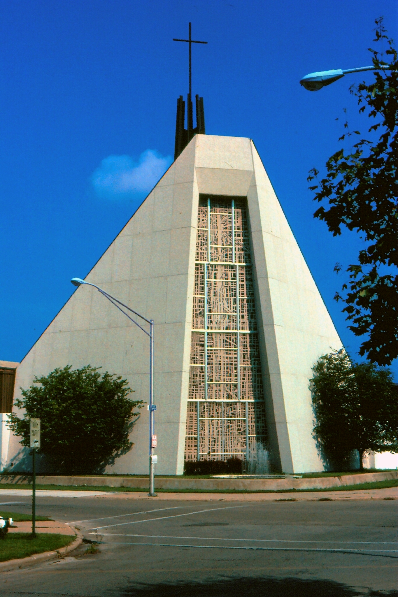 Chicago vicinity, Elmwood Park, Saint Celestine Catholic Parish - summer 1981